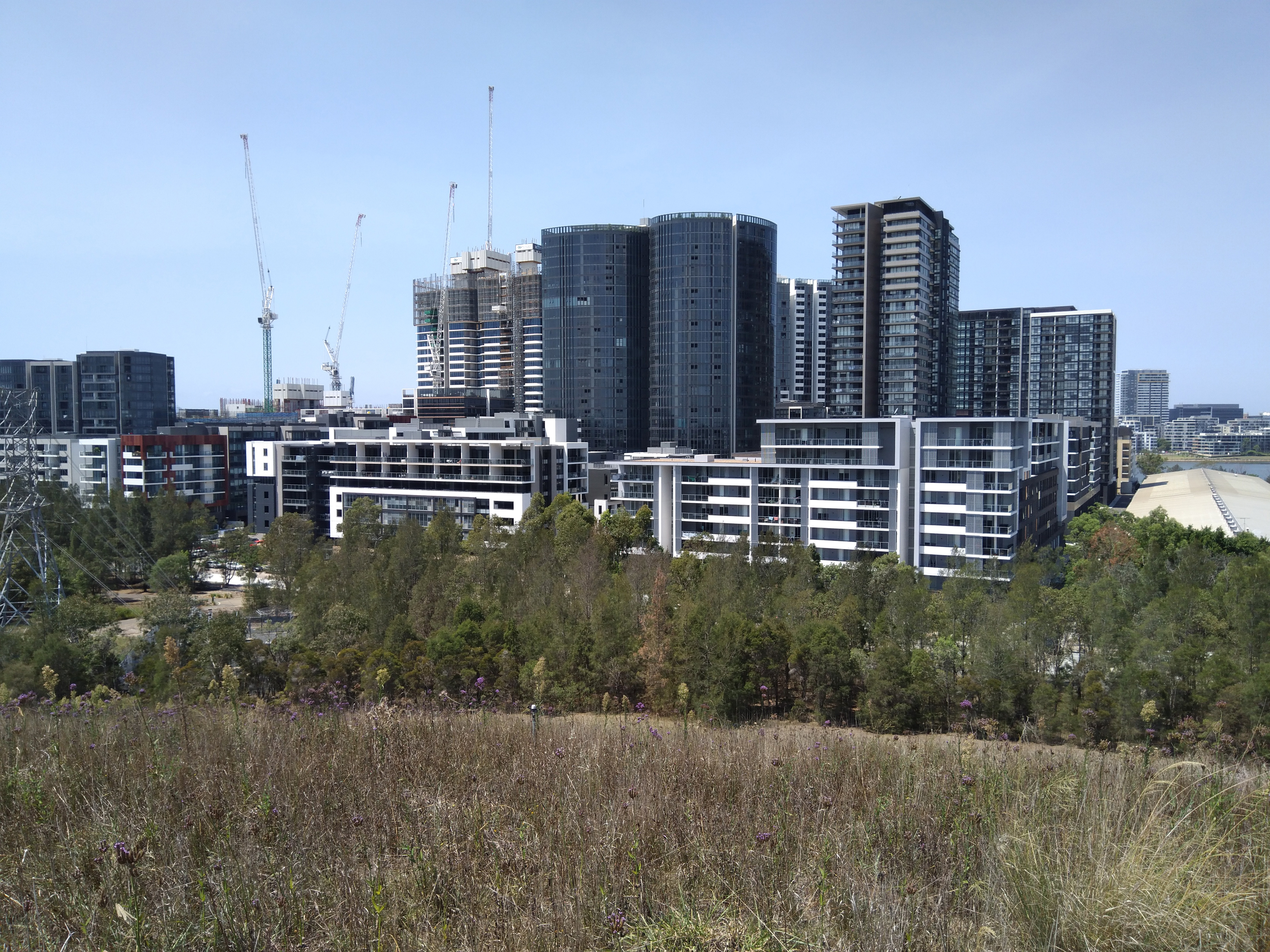 View of new apartment buildings at Wentworth Point from the top of an artificial hill in the Sydney Olympic Park parklands.